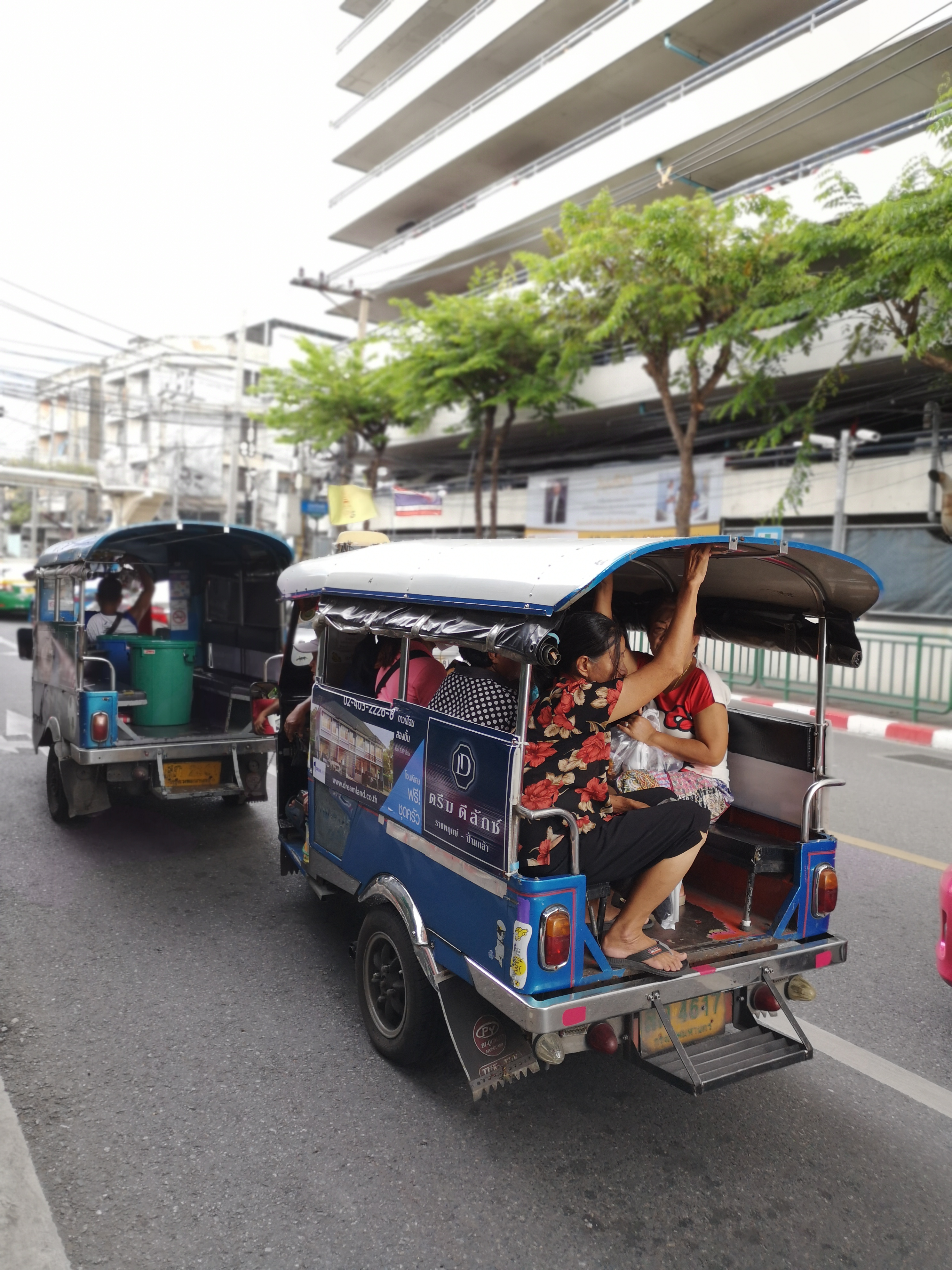 Tuk Tuks At Wang Lung, Bangkok.